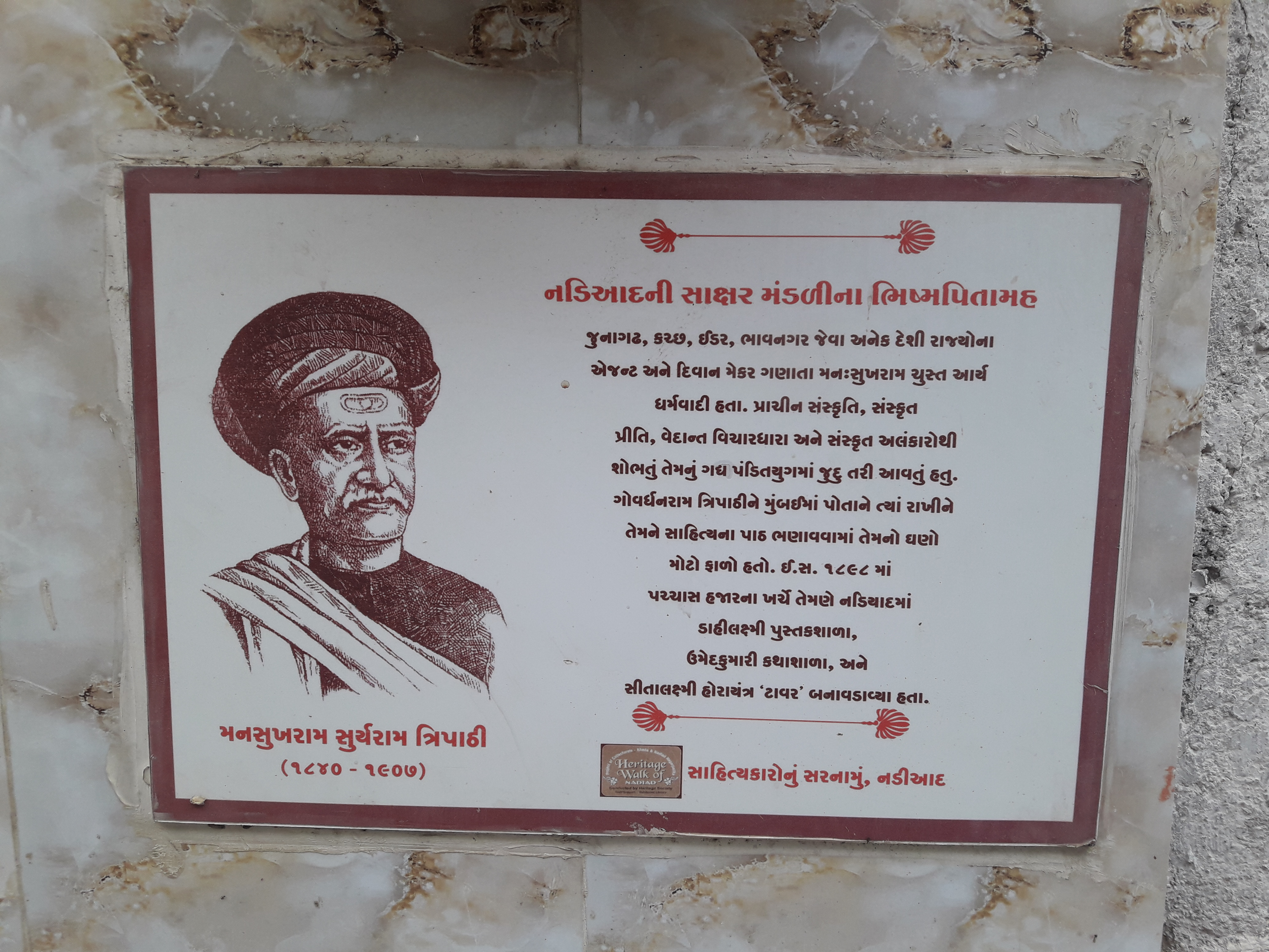 Plaque at the birth place of Mansukhram Suryaram Tripathi, a Gujarati intellectual and writer